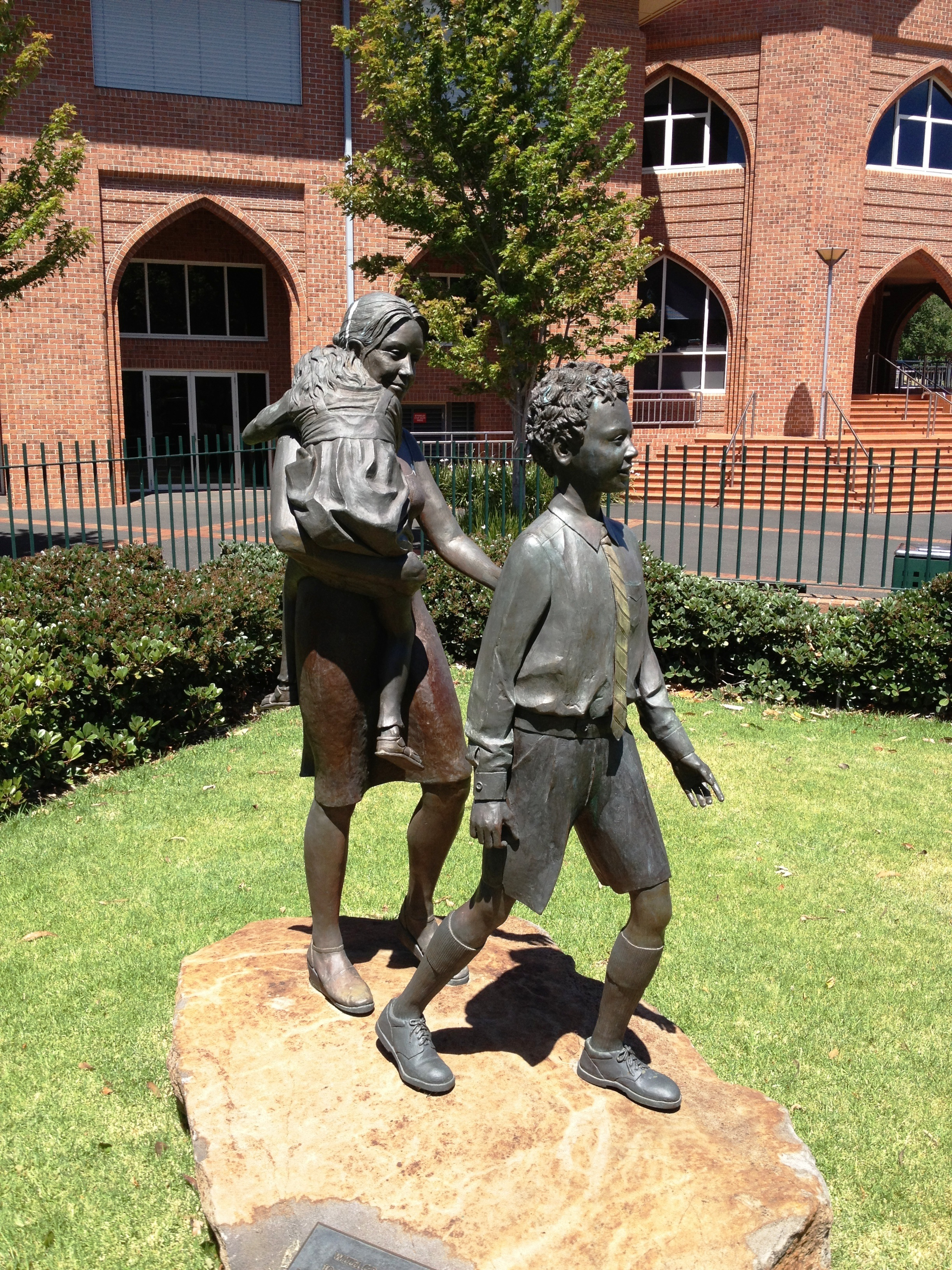 The "Mother and Son" sculpture at Scotch College, Melbourne, which celebrates the role of mothers in the boys' lives and education